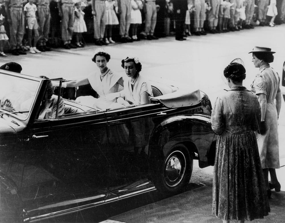 Queen Elizabeth II and her Lady-in-Waiting arrive at a Women's Reception at Brisbane City Hall, 1954 Mrs Nell Gair, wife of the Premier of Queensland, greets The Queen and her Lady-in-Waiting, Lady Pamela Mountbatten, as they arrive at the Brisbane City Hall for a Women's Reception on Wednesday 17 March 1954. More than 2,500 women attended the welcome in the City Hall Auditorium, which was jointly hosted by the Lord Mayor's wife, Mrs Frank Roberts, and Mrs Gair. The Queen, who received 160 floral gifts from the guests, wore a lemon frock and a gold and green wattle hat. (Description supplied with photograph.).